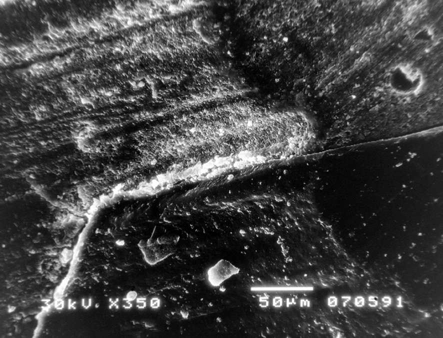 GC-X3E Image